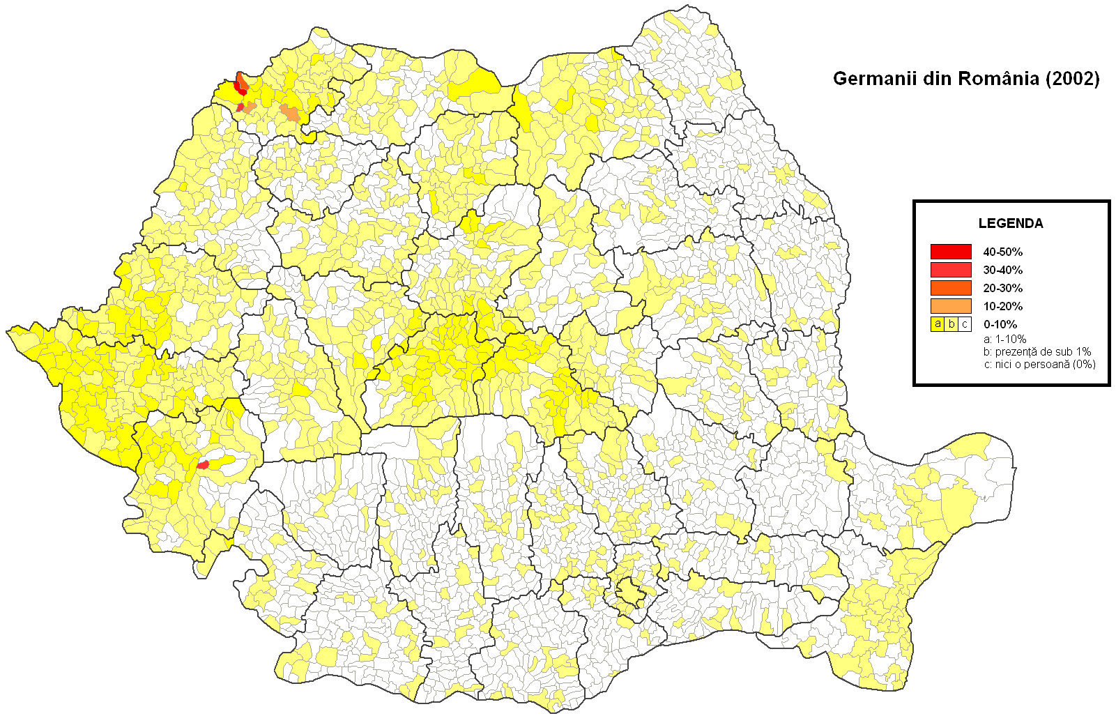 The distribution of the Germans in Romania (census 2002)